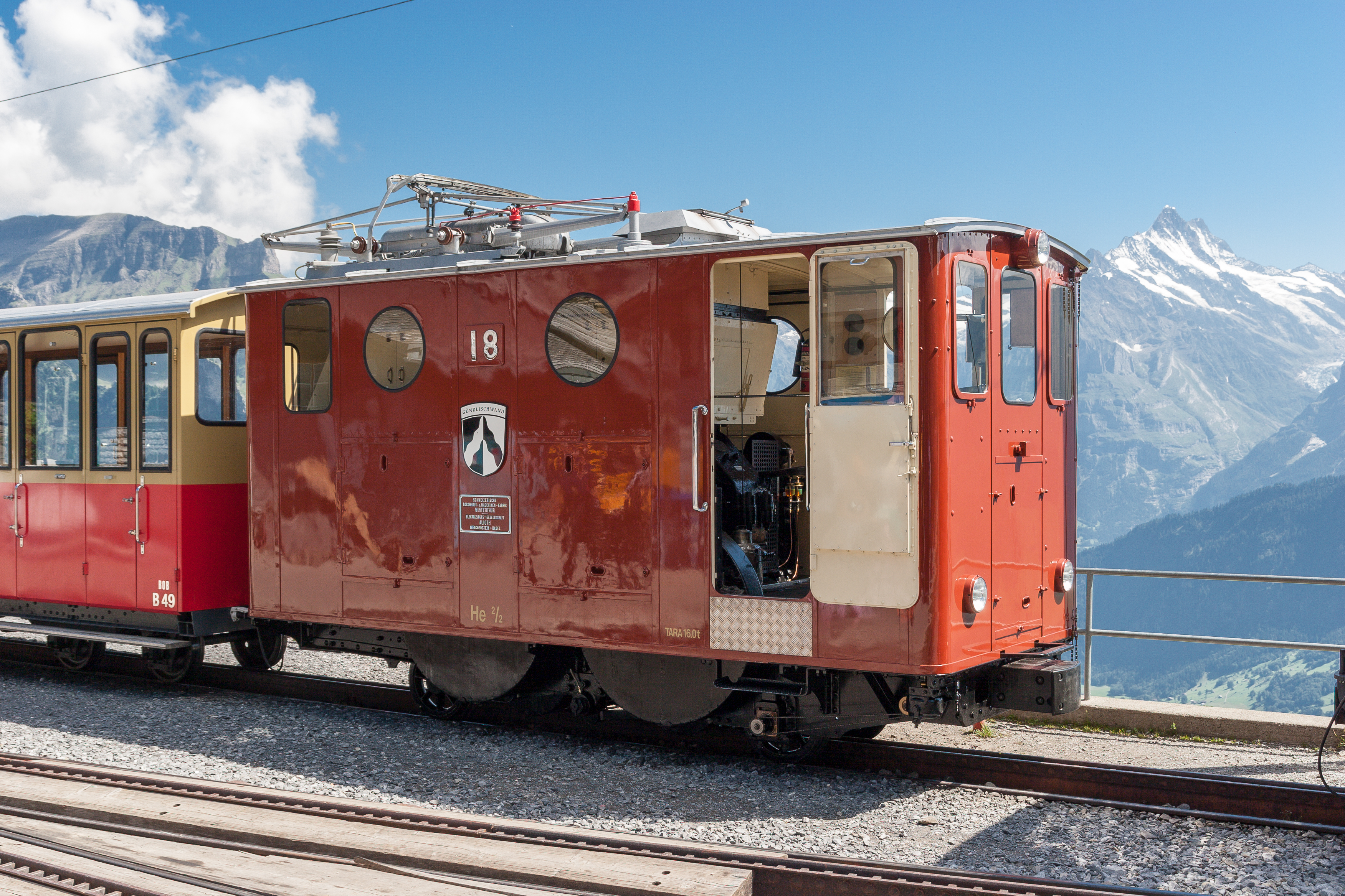 Small electric near gauge rack locomotive SLM He 2/2 Nr. 18 "Gündlischwand" of Schynige Platte-Bahn at the top station